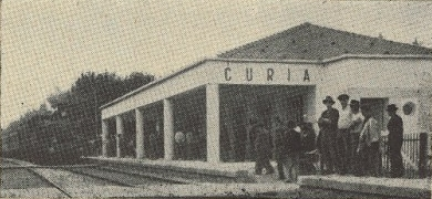 Curia Halt, in the Linha do Norte (Northen Railway), in Portugal. This image was published on the Gazeta dos Caminhos de Ferro magazine no. 1476, of the 16th June 1949, and scanned by the Hemeroteca Municipal de Lisboa.